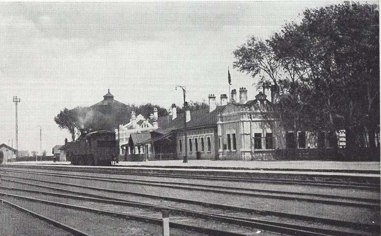 4 old postcards of Kuanchengzi